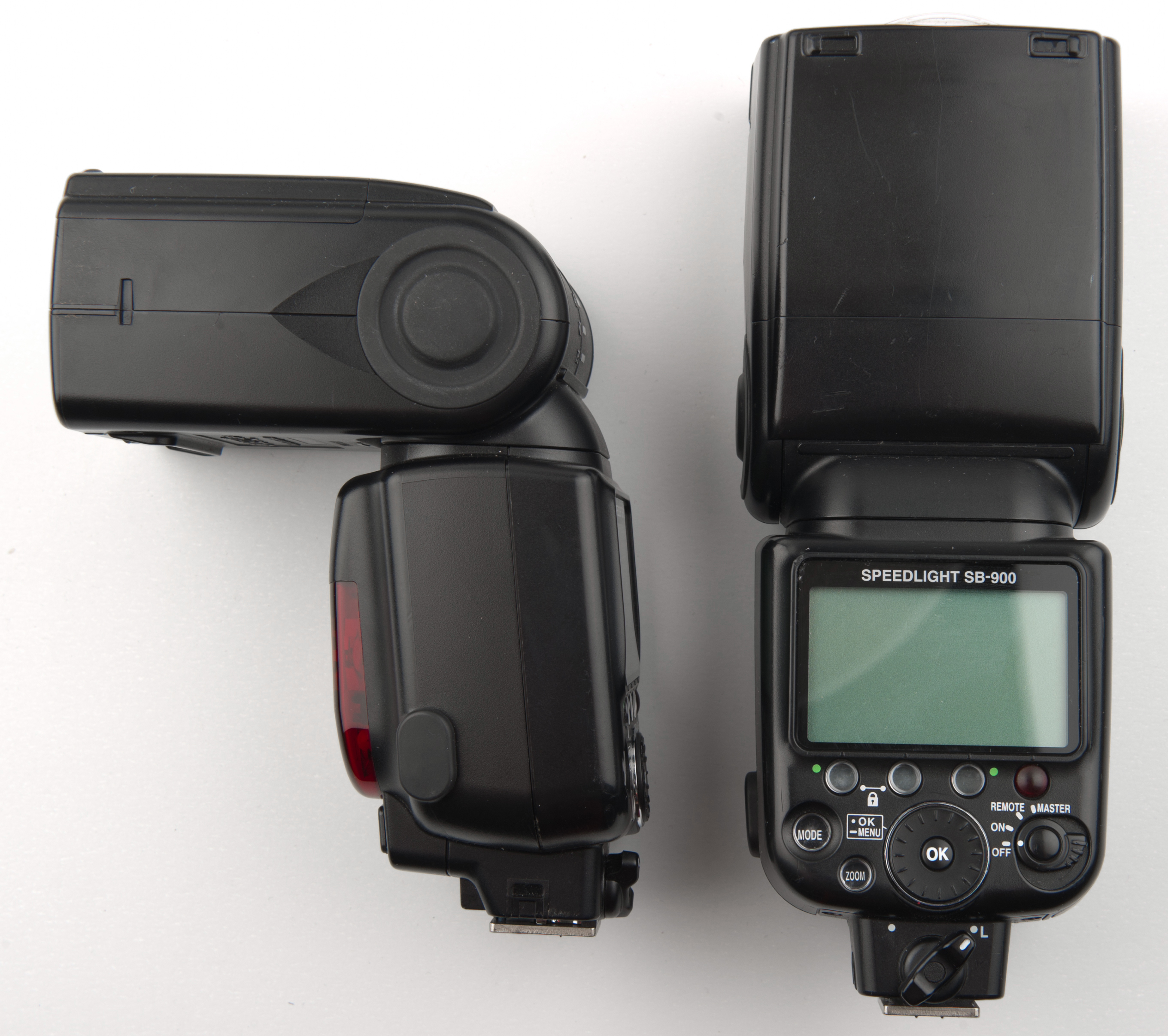 Studio picture of 2 Nikon SB900 flashes/speedlights.